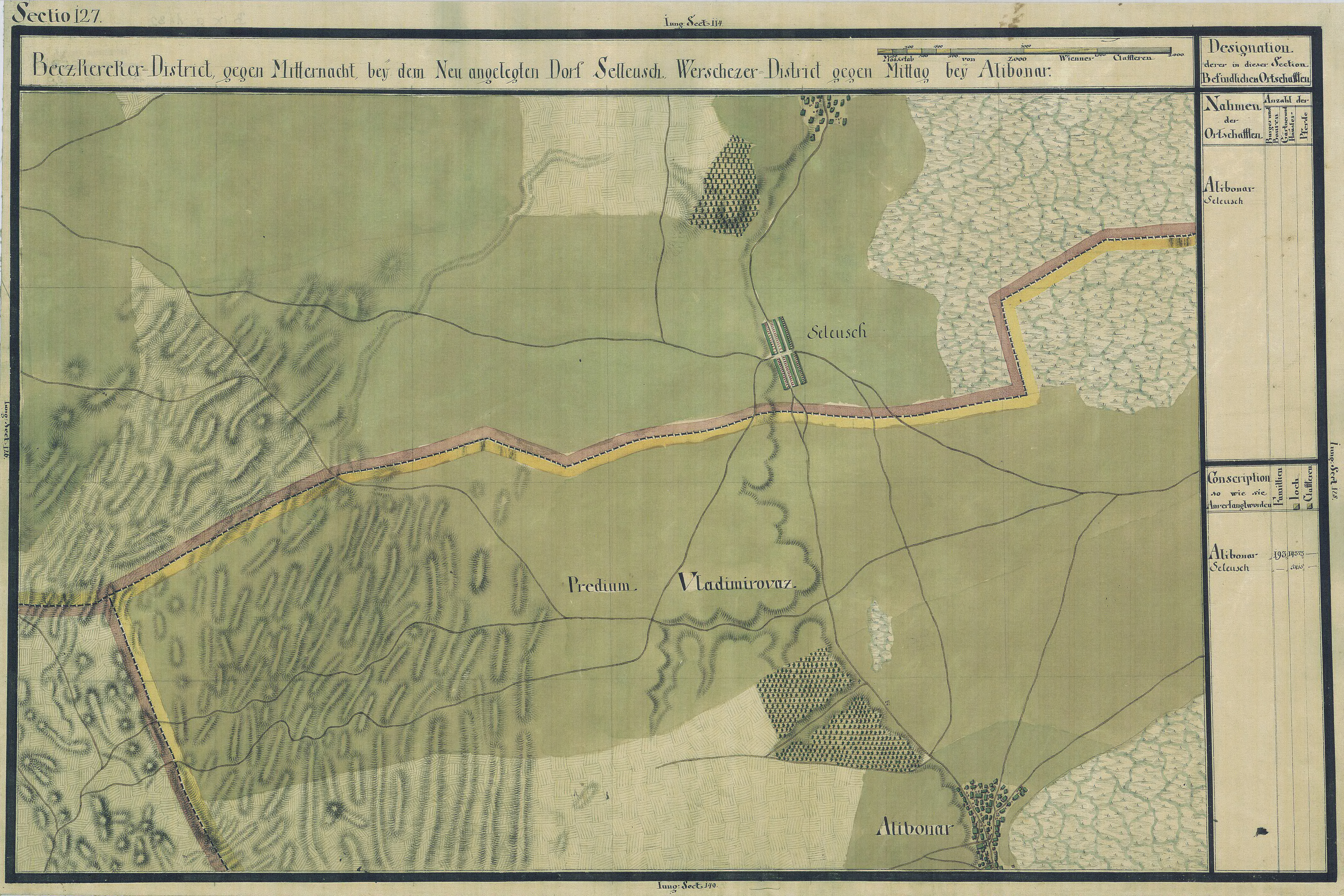 The Banat region in the cadastral maps: Josephinische Landesaufnahme, 1769-72. Josephinische Landaufnahme pg127